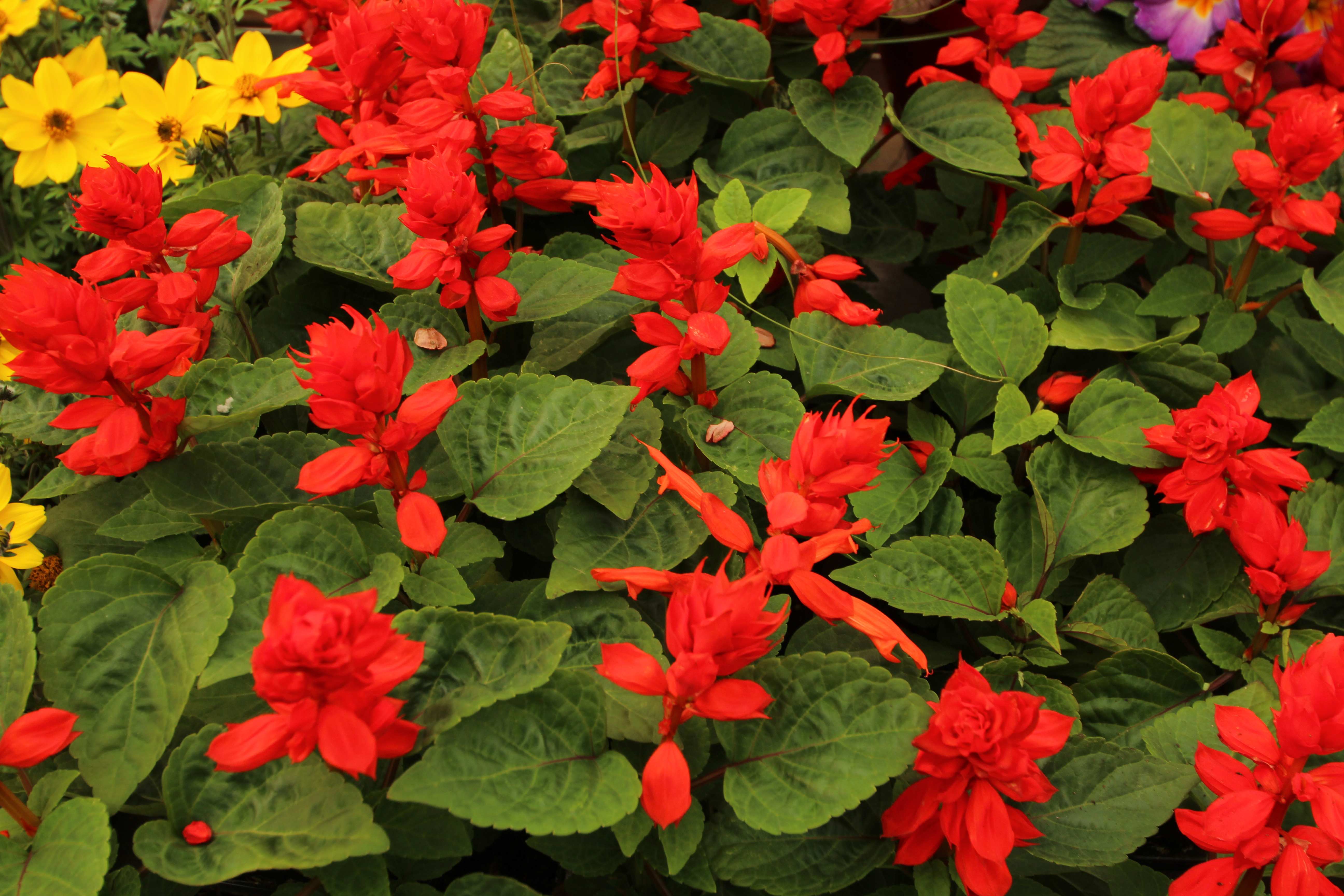 Jardiland of Gometz-le-Châtel, France.